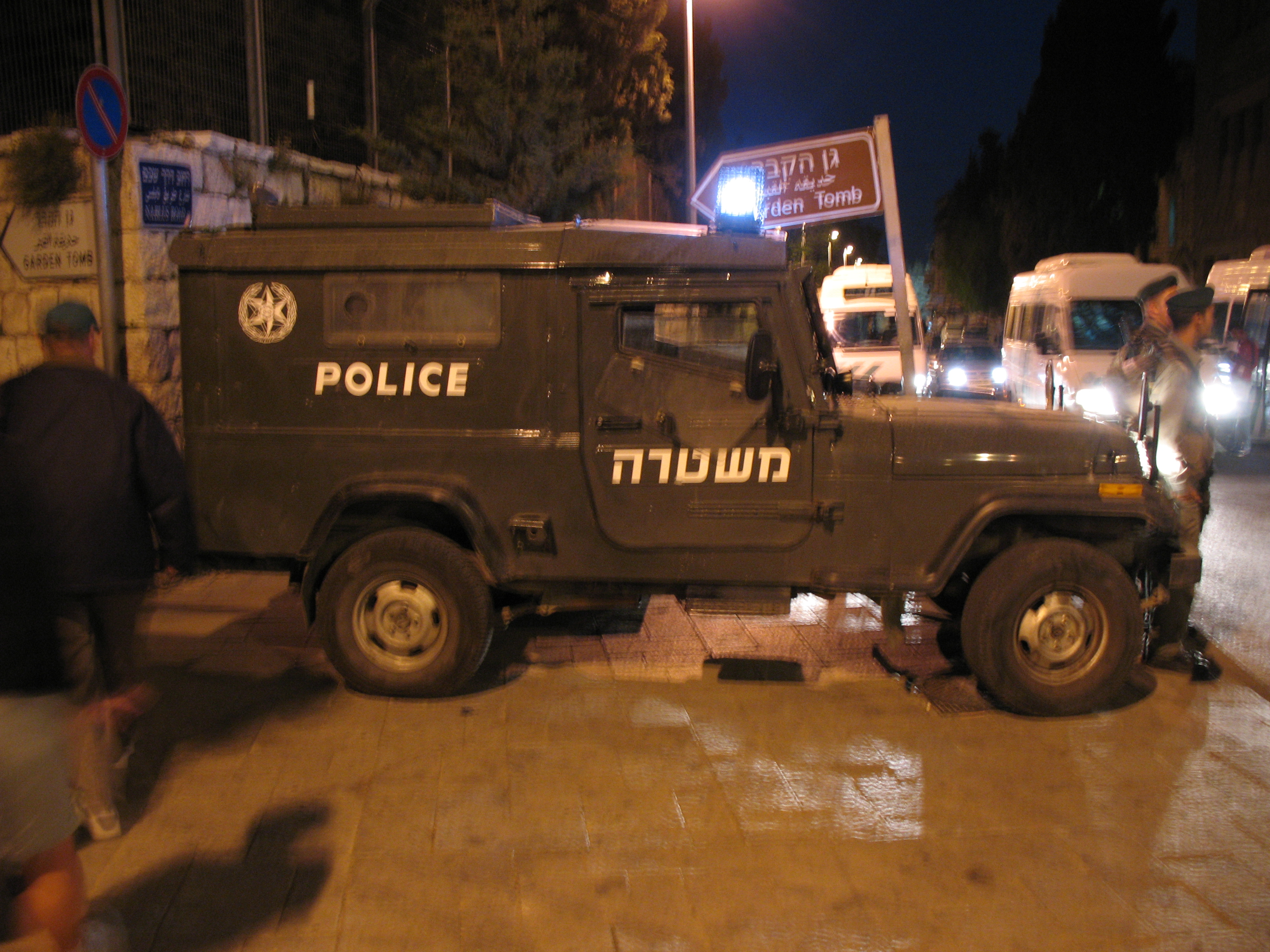 On Friday nights, which is the beginning of the Sabbath, security is stepped up on all streets leading to the Western Wall. This picture was taken near the Garden Tomb, a block or two outside the Damascus Gate. The white vans on the right are shuttles either bringing Jews in to pray at the Western Wall or taking Muslims out after their Friday worship. blogged at: Pictures taken around Jerusalem (excluding Old City).